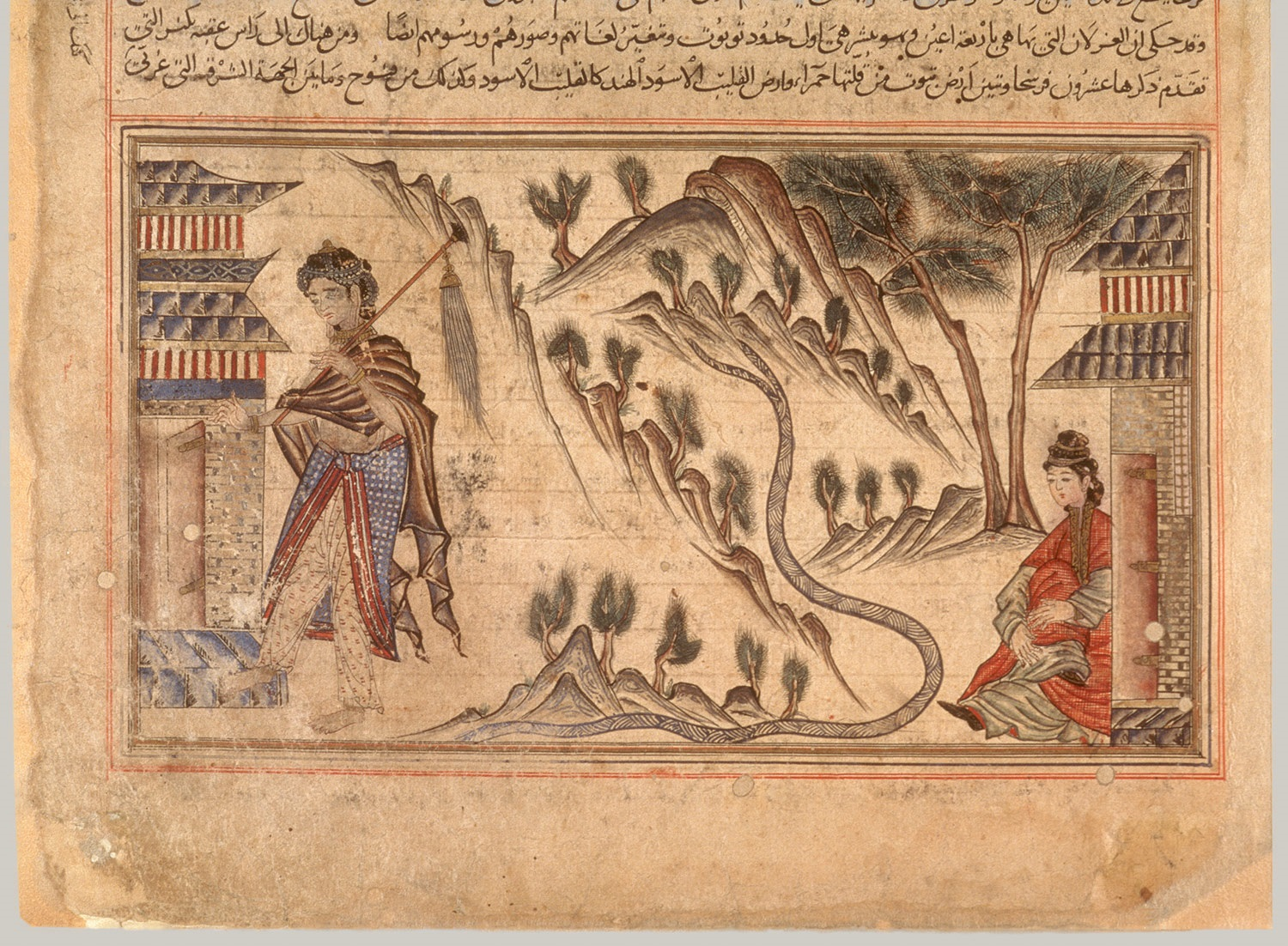 from the Jami al-Tawarikh, Khalili Collection; Mountains between Tibet and India (MAA 727), from the Jamic al-tavarikh (Compendium of Chronicles), A.H. 714/1314–15 Rashid al-Din Iran (Tabriz) Fol. 26Ir: ink, colors, and gold on paper The Nasser D. Khalili Collection of Islamic Art, London